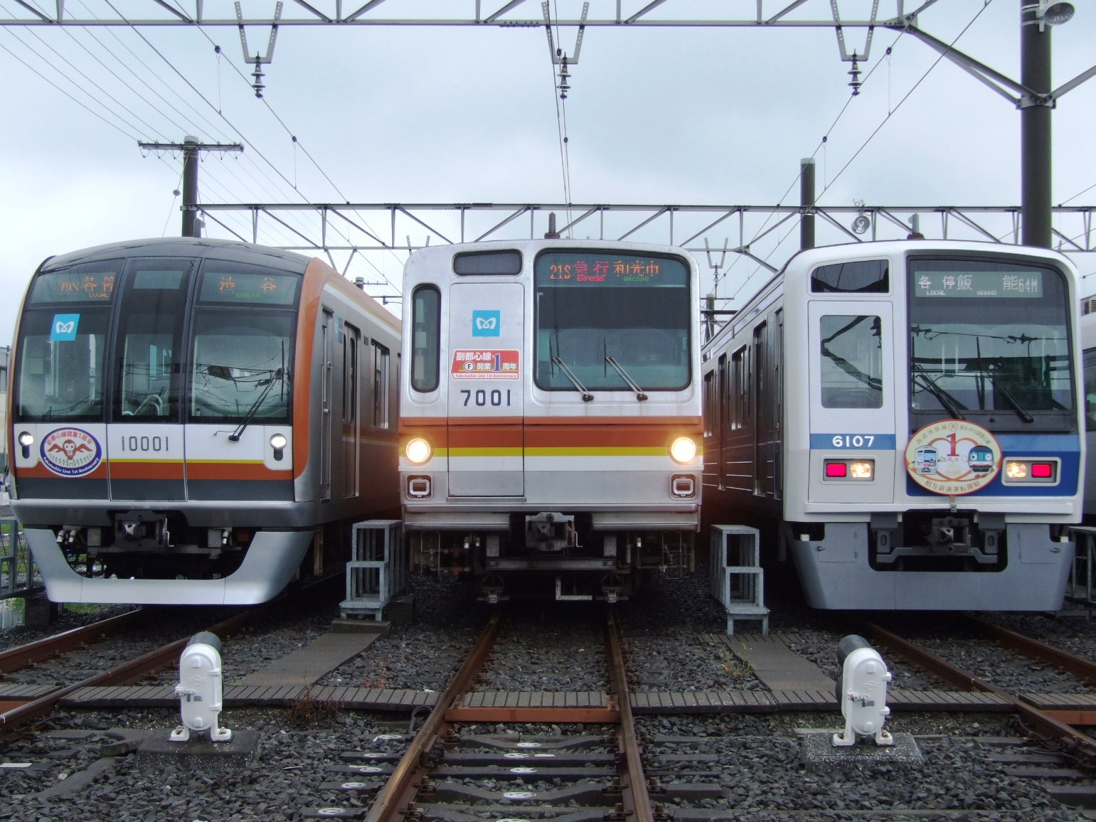 Seibu Yūrakuchō Line trains (Tokyo Metro 10000 series, Tokyo Metro 7000 series, Seibu 6000 series)